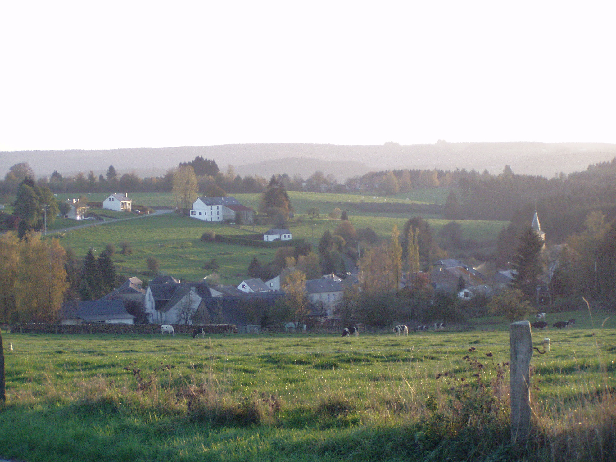 Ucimont (Belgium) from the street "du Champ de Tu"